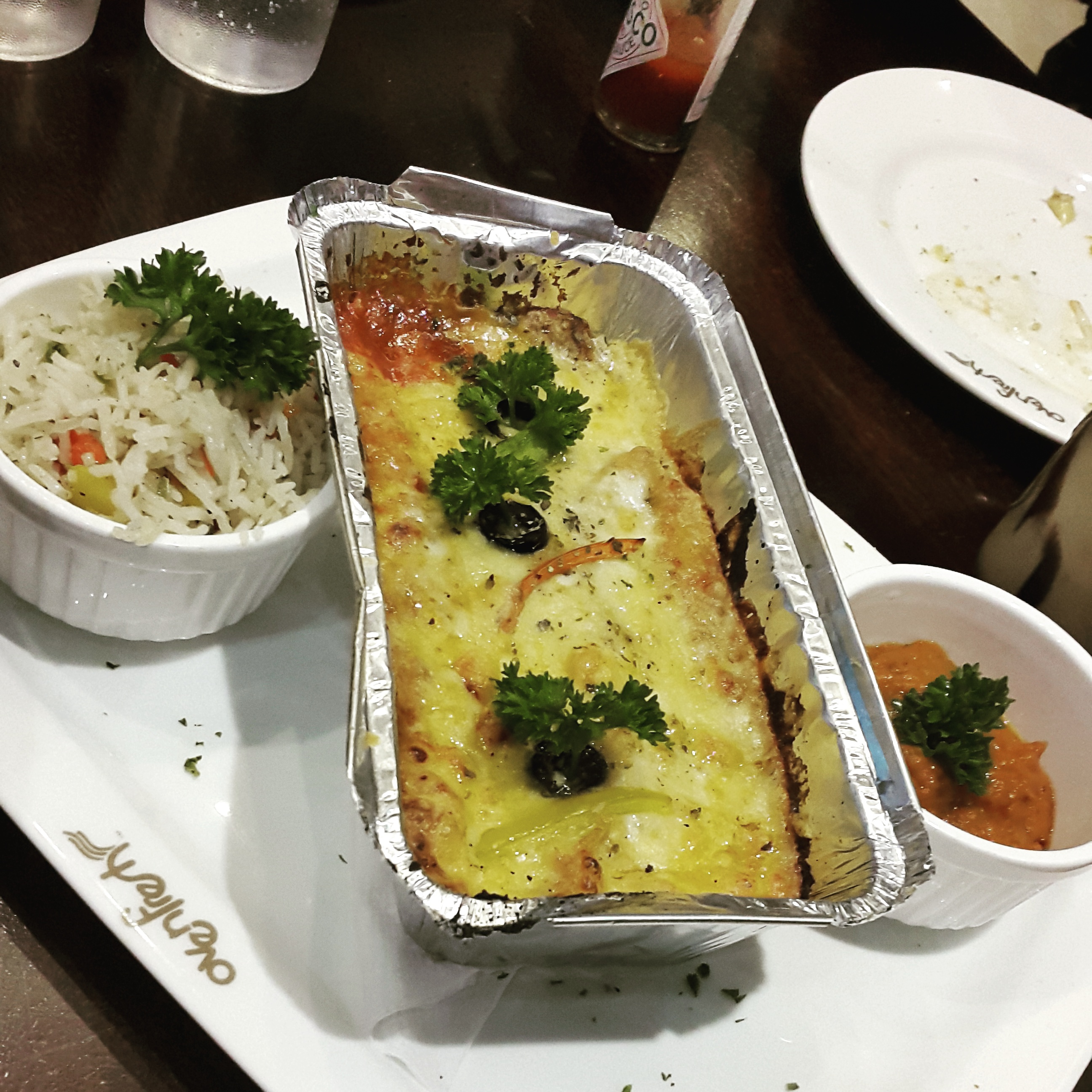 enchiladas is a mexican cousine usually served with rice and a savoury dip.